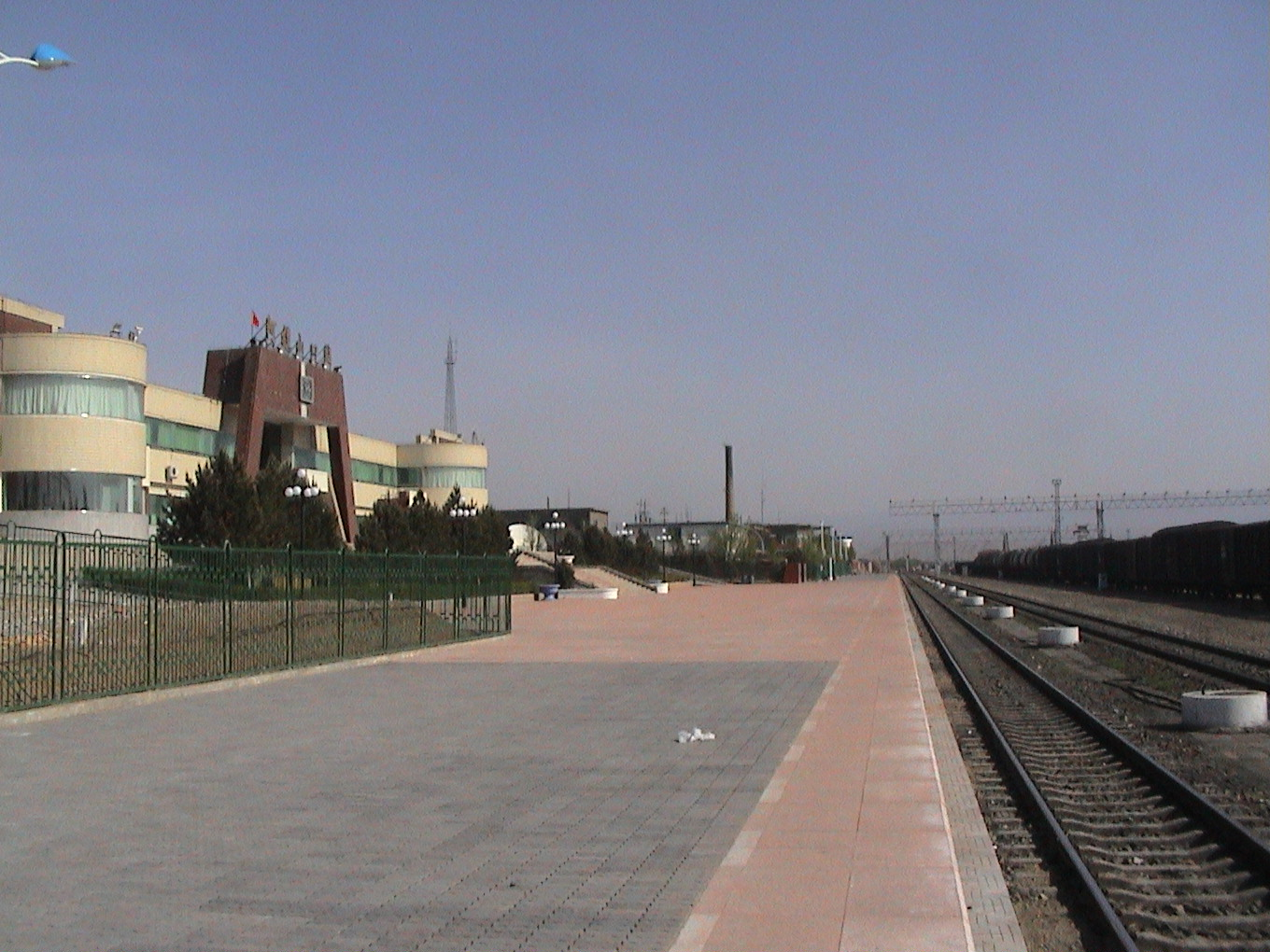 Alashankou railway station This image was taken by User:Yaohua2000 at 2006-04-26 03:08:06 UTC.